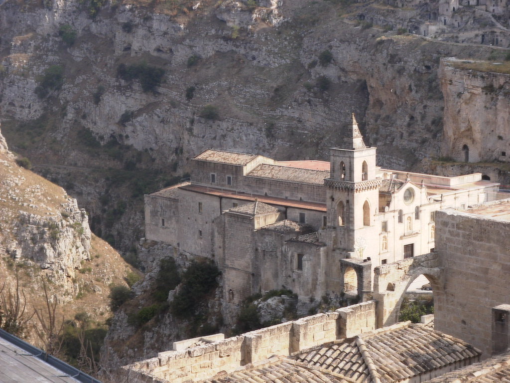 Matera, Italy - Church of San Pietro Caveoso.